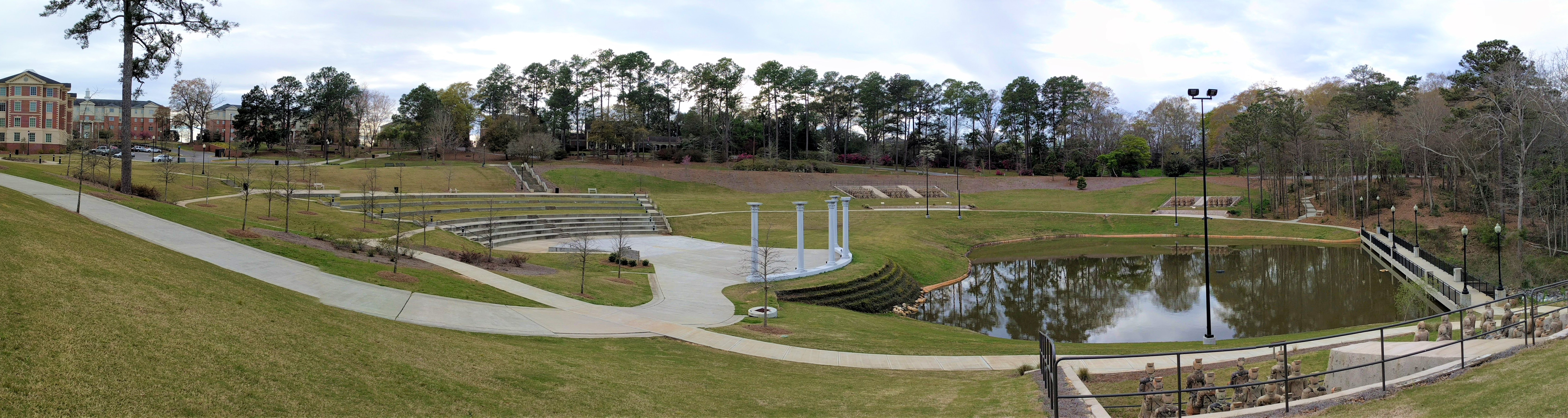 A panorama of Janice Hawkins Park on the Troy University campus.